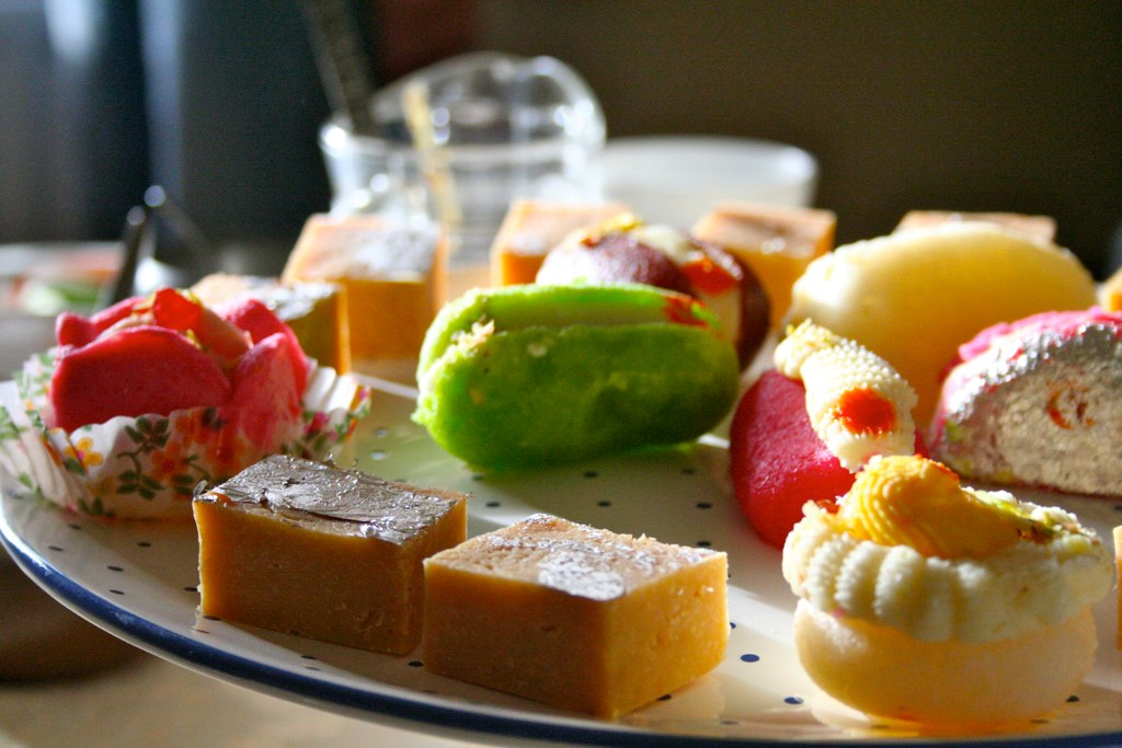 We had another feast on Boxing Day. Here are some Indian sweets called Chum Chums